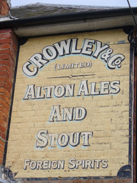 Former Alehouse, Odiham Wharf Painted advert on the side wall of the former Cricketers Inn. Nearby Alton was once a brewing centre and hops were grown locally.